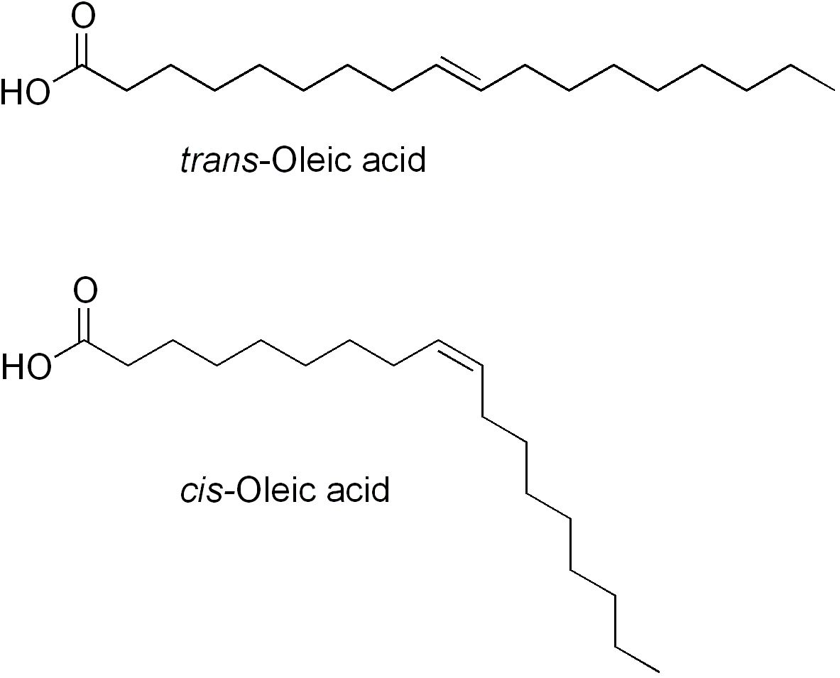 Chemical structures of cis- and trans-isomers of oleic acid